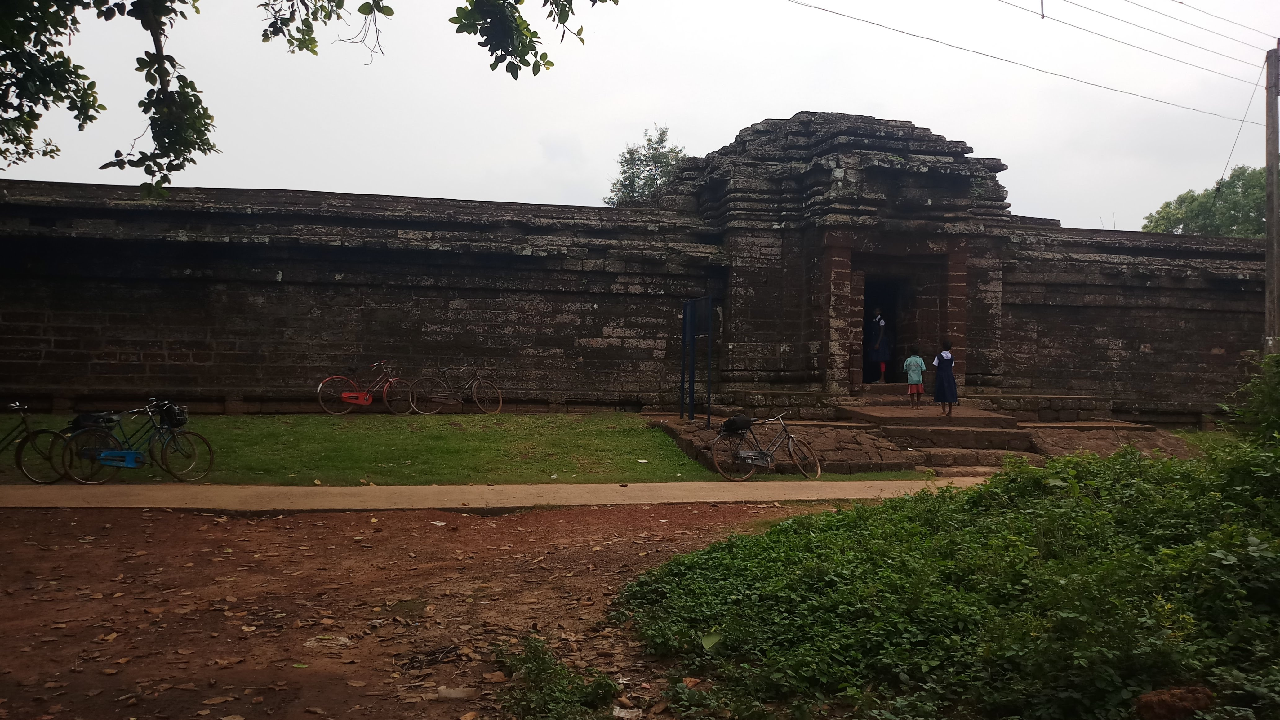 Main entrance of Kurumbera fort, captured on August 3, 2017.